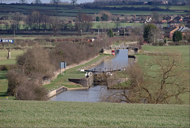 Zouch Cut and Lock Zouch Cut is a short artificial cut taking the navigation past Zouch weir and back to River Soar slightly further downstream. There is one lock with a nominal rise of 6'4".